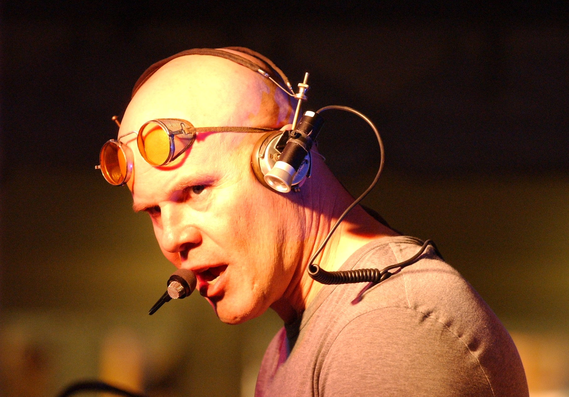 Thomas Dolby